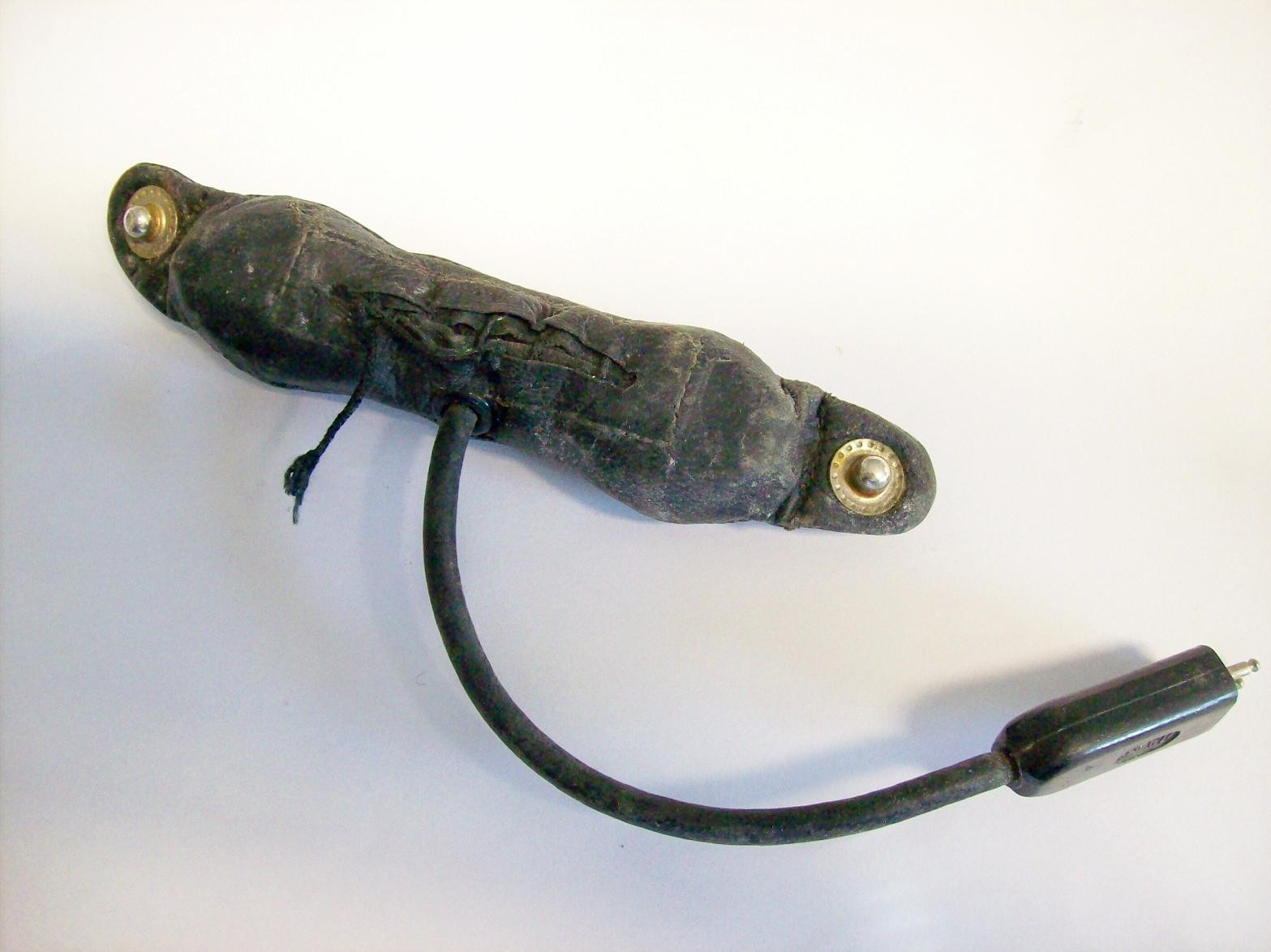 Throat microphone LA-5 (ЛA-5) for fighter pilots produced in 1980s in Soviet union